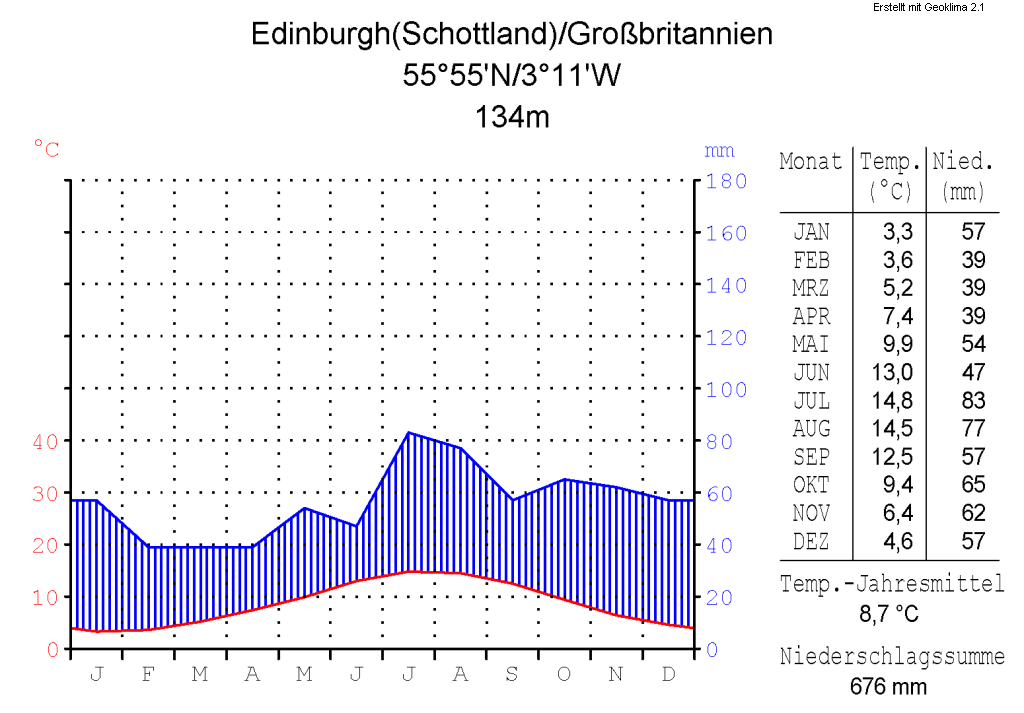 climate chart in the format by Walter and Lieth, metric, °Celsisus and millimeters, made with Geoklima 2.1